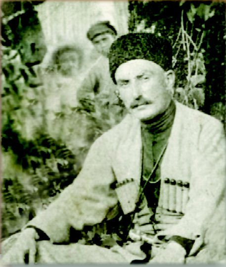 Colonel Kakutsa Cholokashvili Georgia Pre-1921 image, unknown author